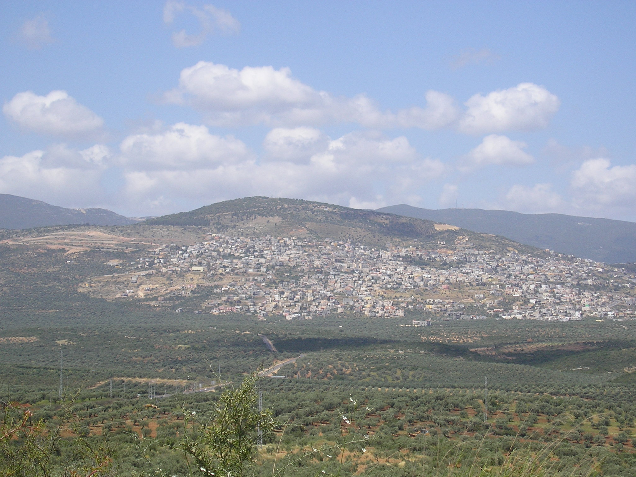 Maghar (town), Israel, from the south